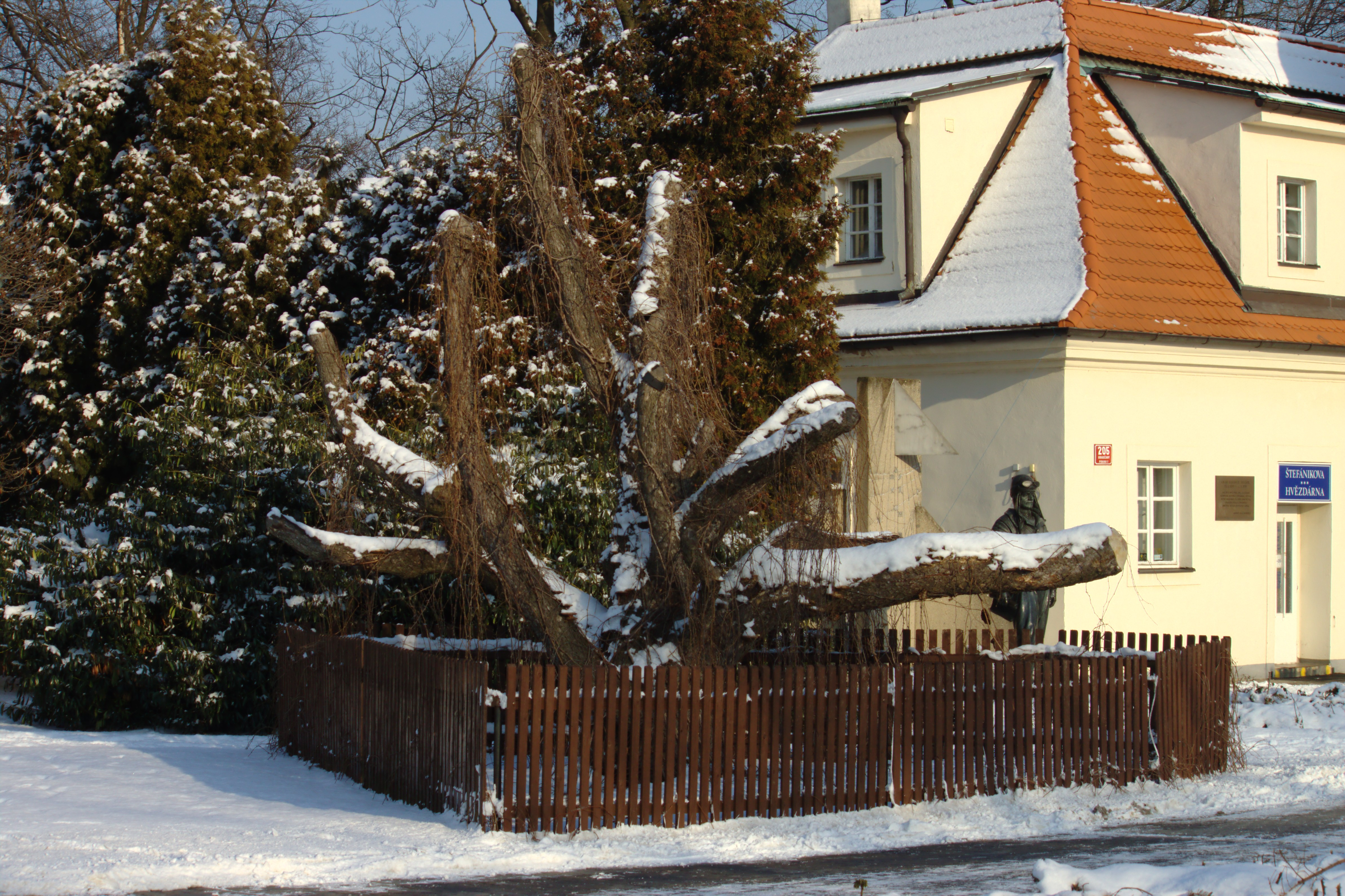 Former tree close to Prague-Petřín observatory This photograph was taken with a DSLR from WMCZ's Camera grant.